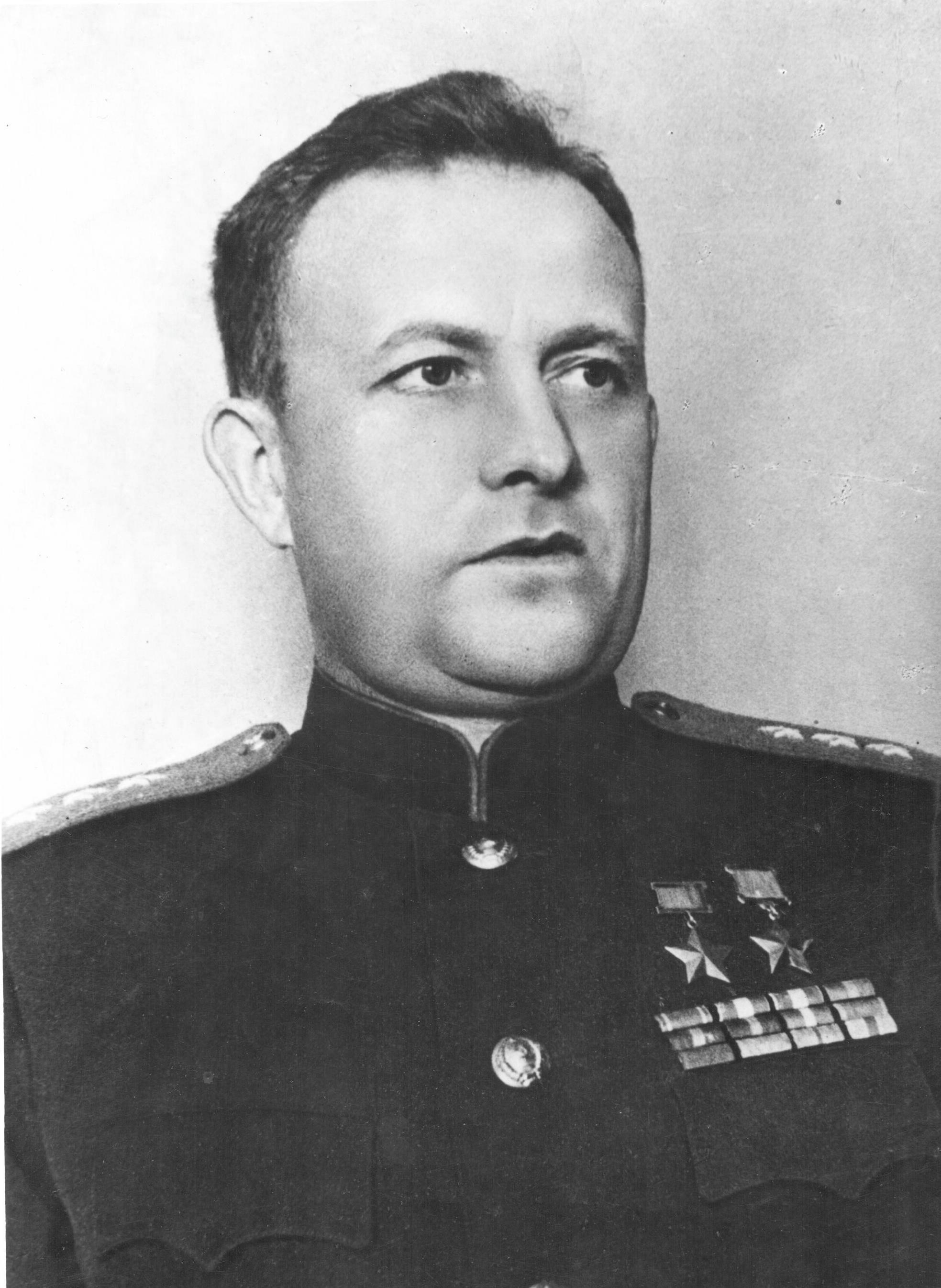 Twice Hero of the Soviet Union Timofey Timofeevich Khryukin